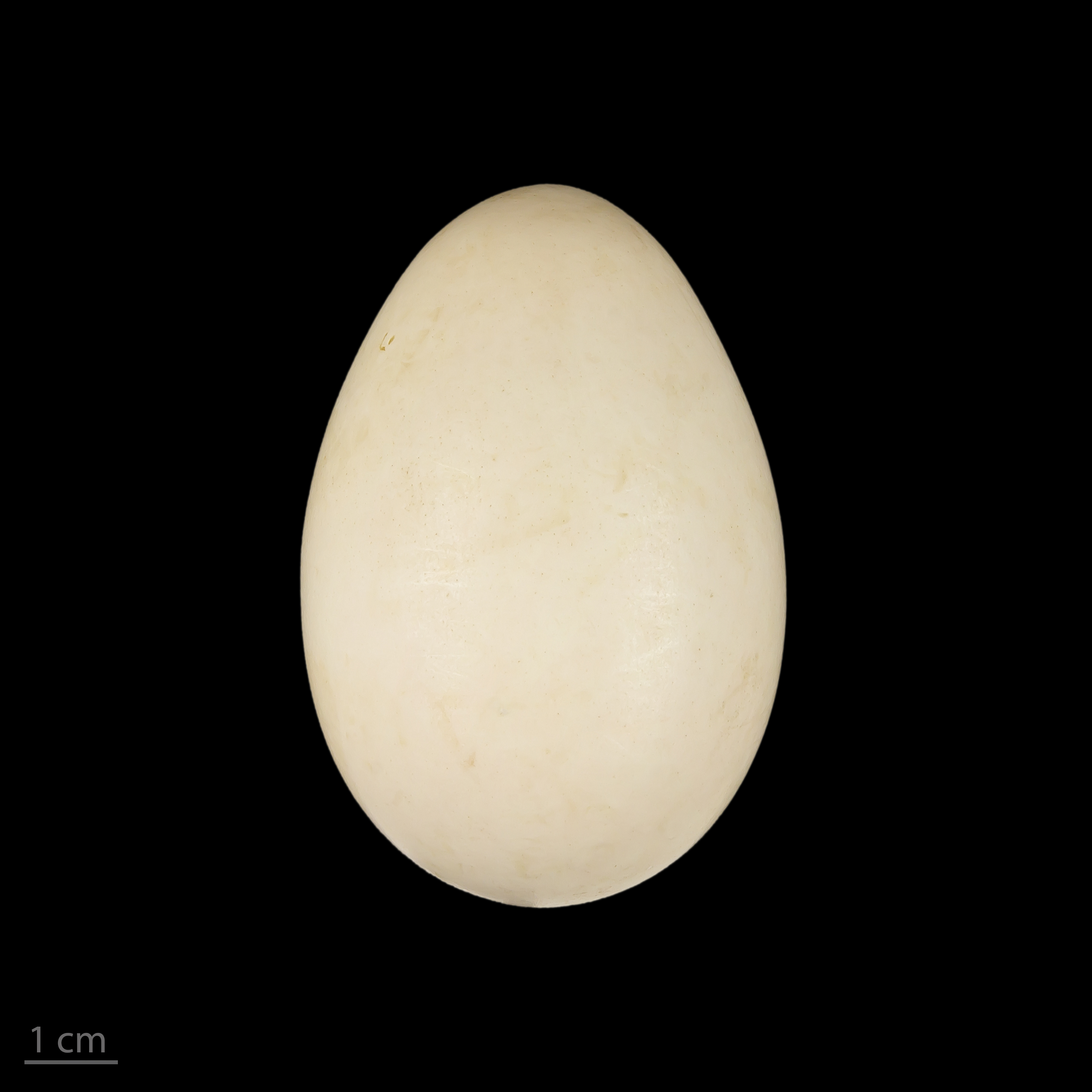 Egg of ashy-headed goose Collection of Jacques Perrin de Brichambaut.